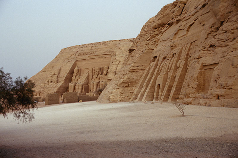 Both Temples at Abu Simbel, Lake Nasser, Egypt